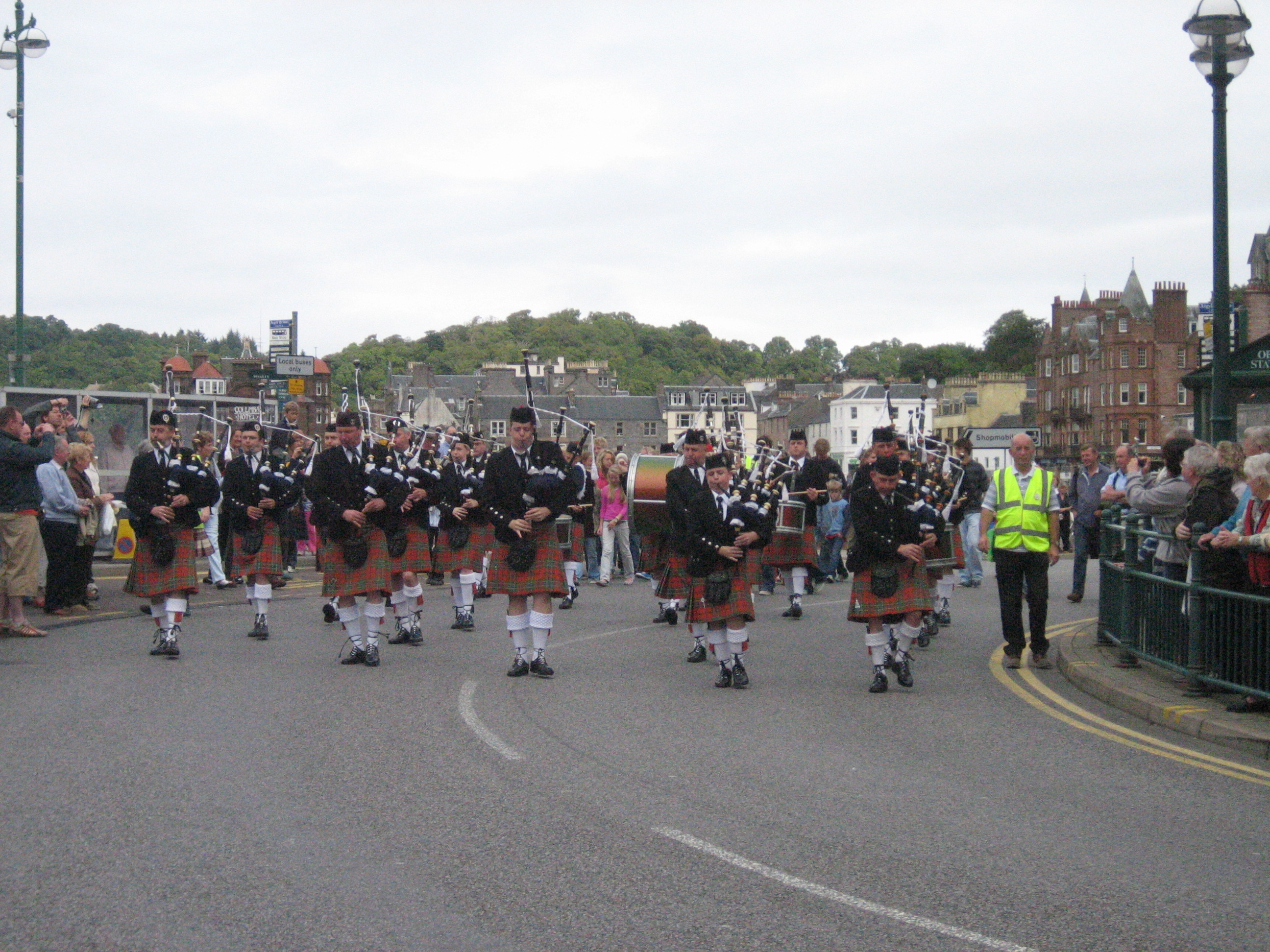 March through the City of Oban during the Highland Games 2007